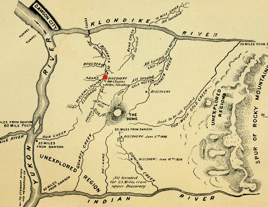 Map of Klondike River and gold bearing creeks, from an 1897 guidebook for gold seekers during the Klondike Gold Rush. Claimed and unexplored regions are marked[1] The gold flowed into the creeks from the dome in the middle.[2] Bonanza is the creek closest to Dawson City and discovery claim is in the middle of it